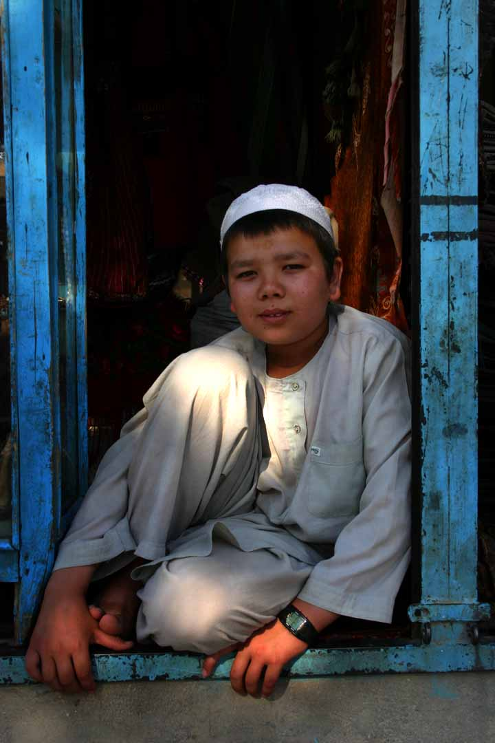 Boy in Mazar-e Sharif